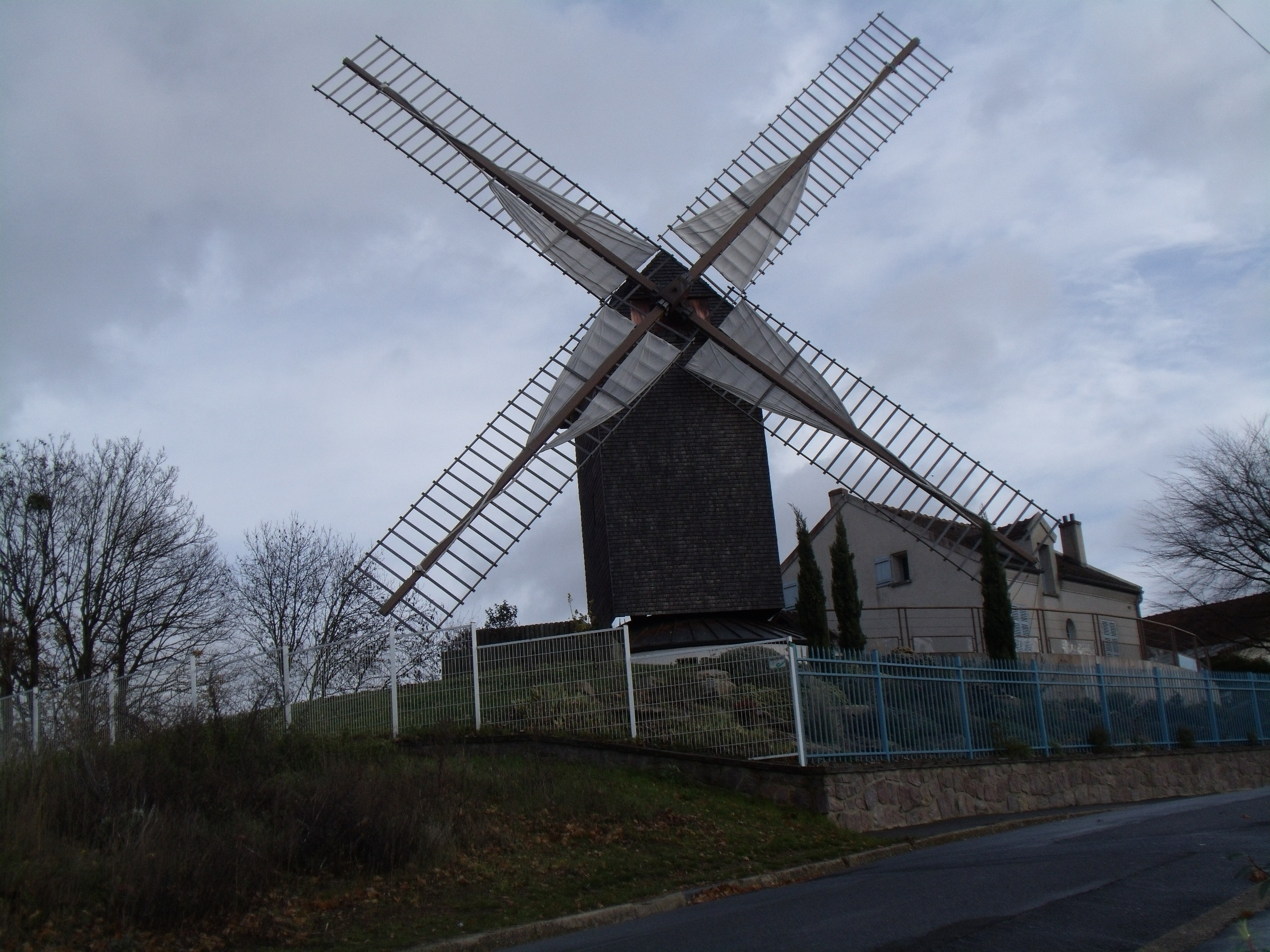 The windmill in Sannois